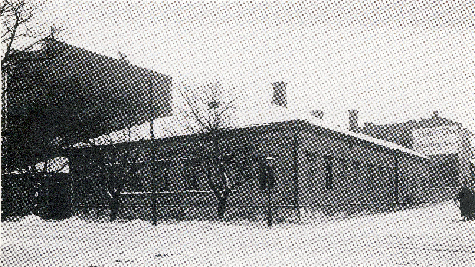 The corner of Bulevardi and Annankatu in Helsinki in 1902. The house in the corner (Bulevardi 5) was the birthplace of explorer Adolf Erik Nordenskiöld.